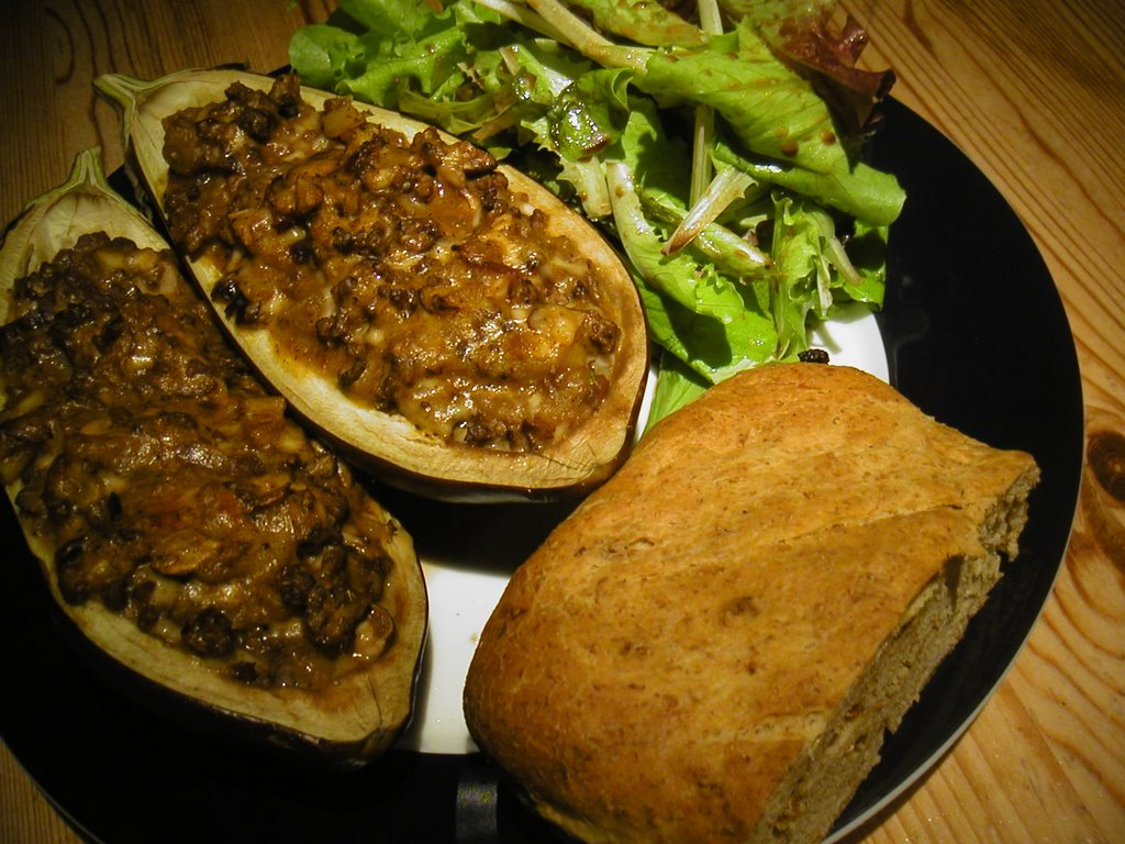 Stuffed eggplant with salad and bread